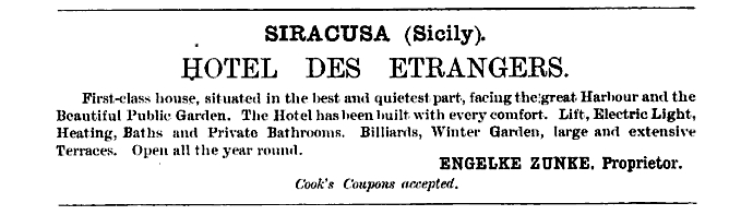 Advertise for Hotel des etrangers in Siracusa (Sicily)